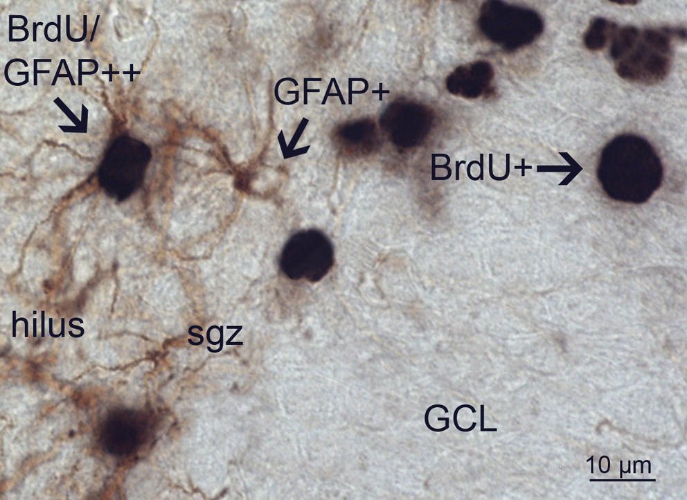 Figure 9. GFAP/BrdU double labeling. Immunohistochemical double labeling for GFAP and BrdU shows single GFAP+ astrocytes in the hilus with their processes occasionally extending into the sgz. GFAP+ cells reveal brown DAB-staining in their processes and cytoplasm whereas the nucleus is devoid of staining. In the GCL, BrdU+ single cells are stained black by DAB-nickel as indicated (BrdU+) in the granular cell layer (GCL). Shown on the left is a BrdU/GFAP double labeled cell (arrow).